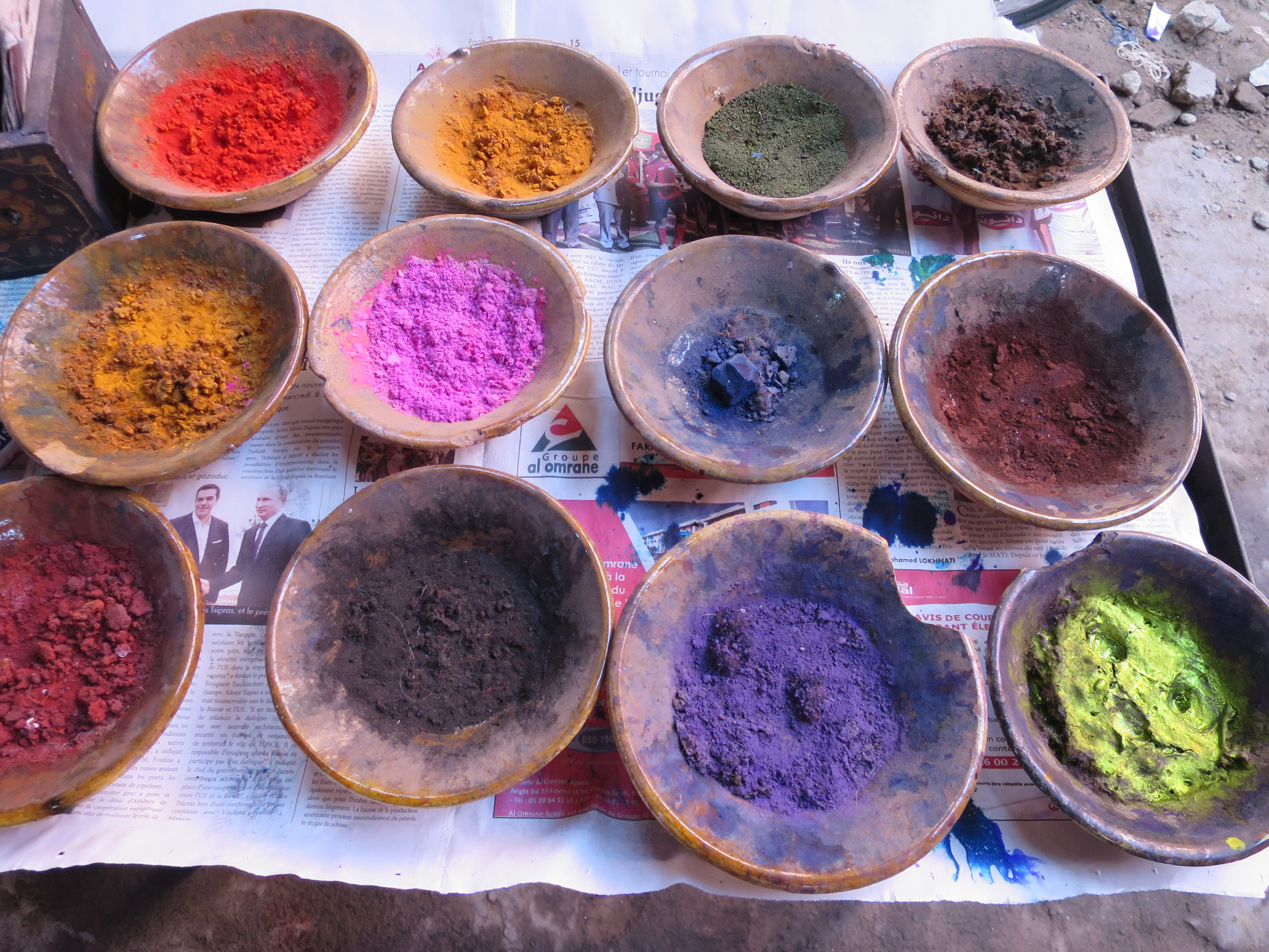 Photo taken in Marrakech This is an image of Cultural Fashion or Adornment from Morocco